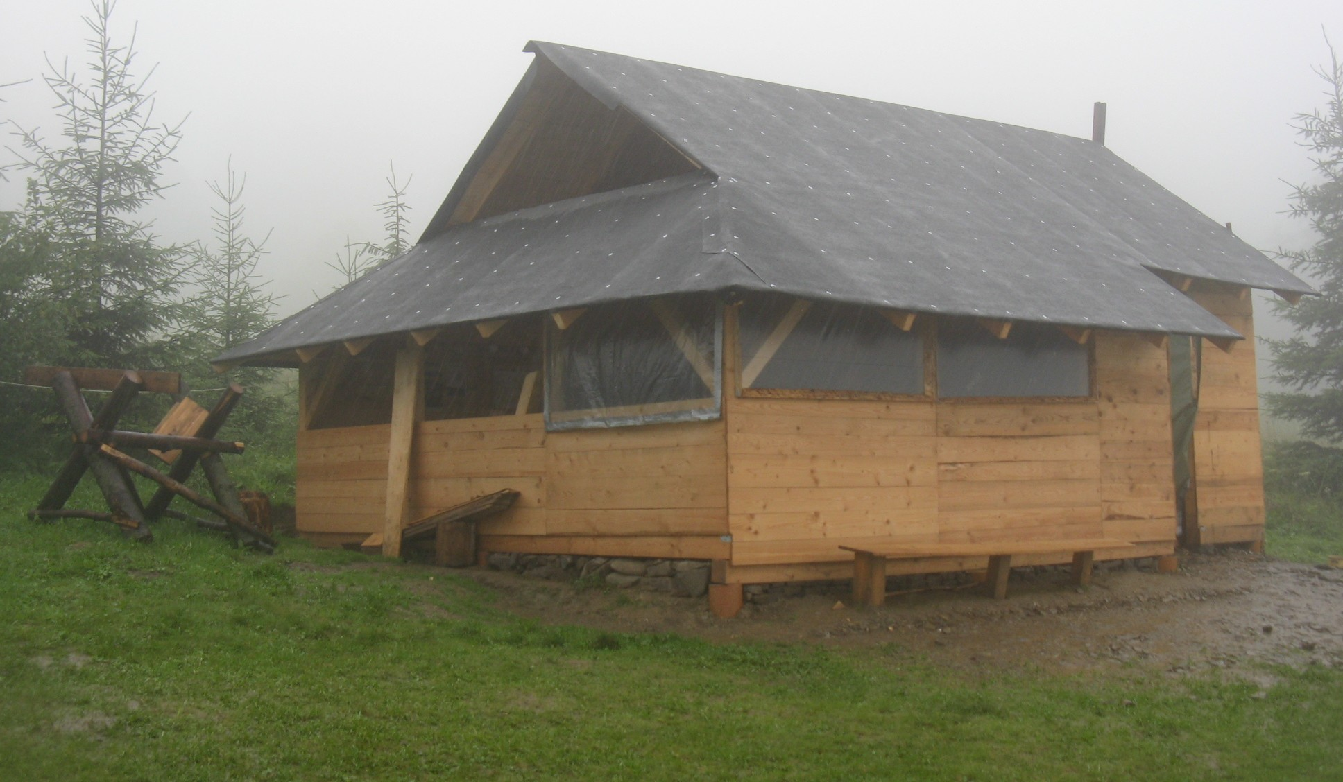 shed of student's tent base "Głuchaczki" in Żywiec Beskids build in 2008 to relieve old destroyed shed